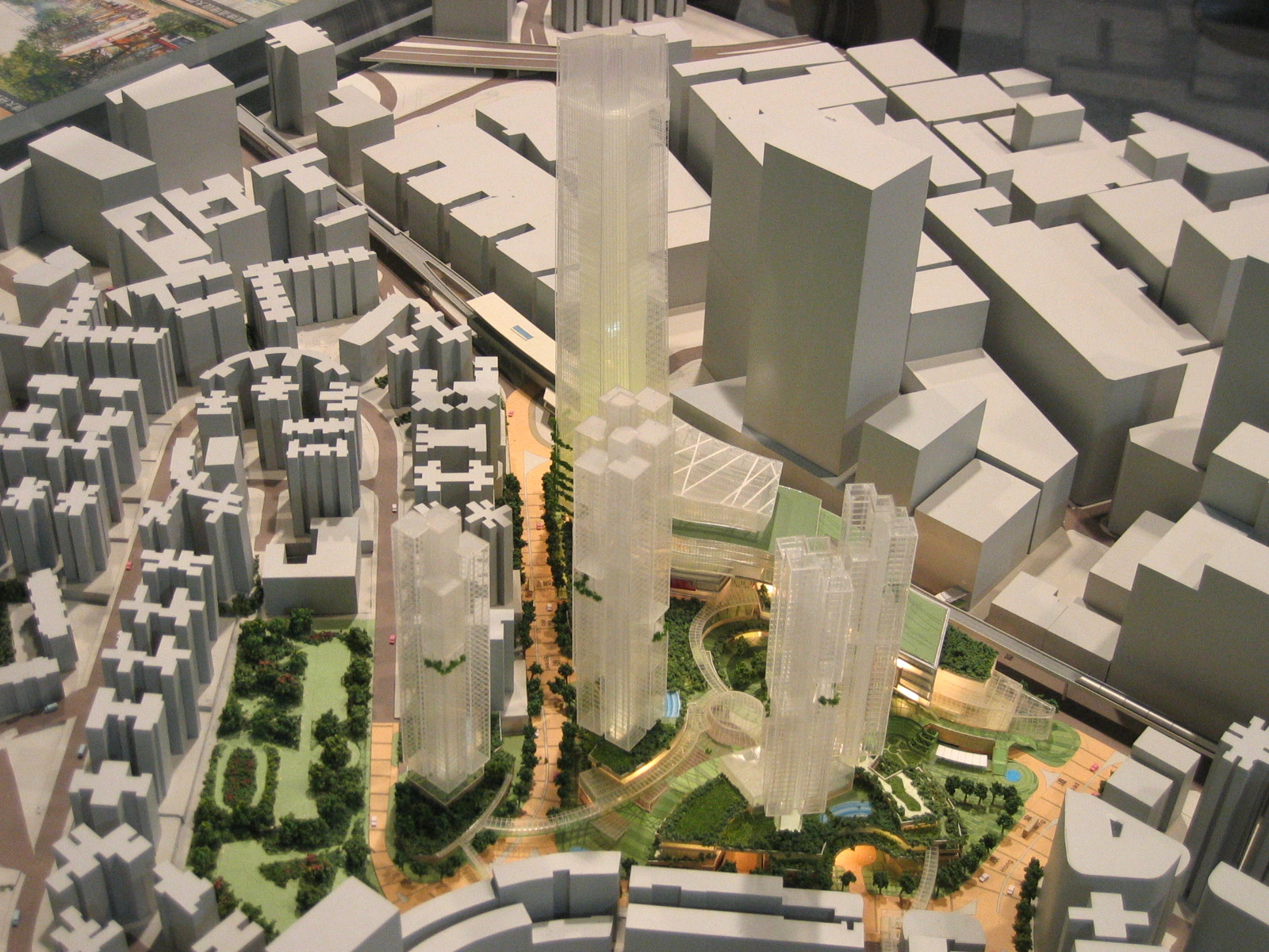 Wong & Ouyang Kwun Tong Town Centre Project Model